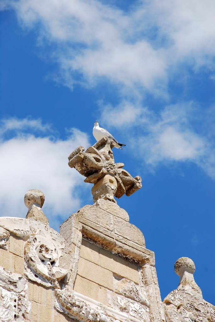 A religious seagull... xD